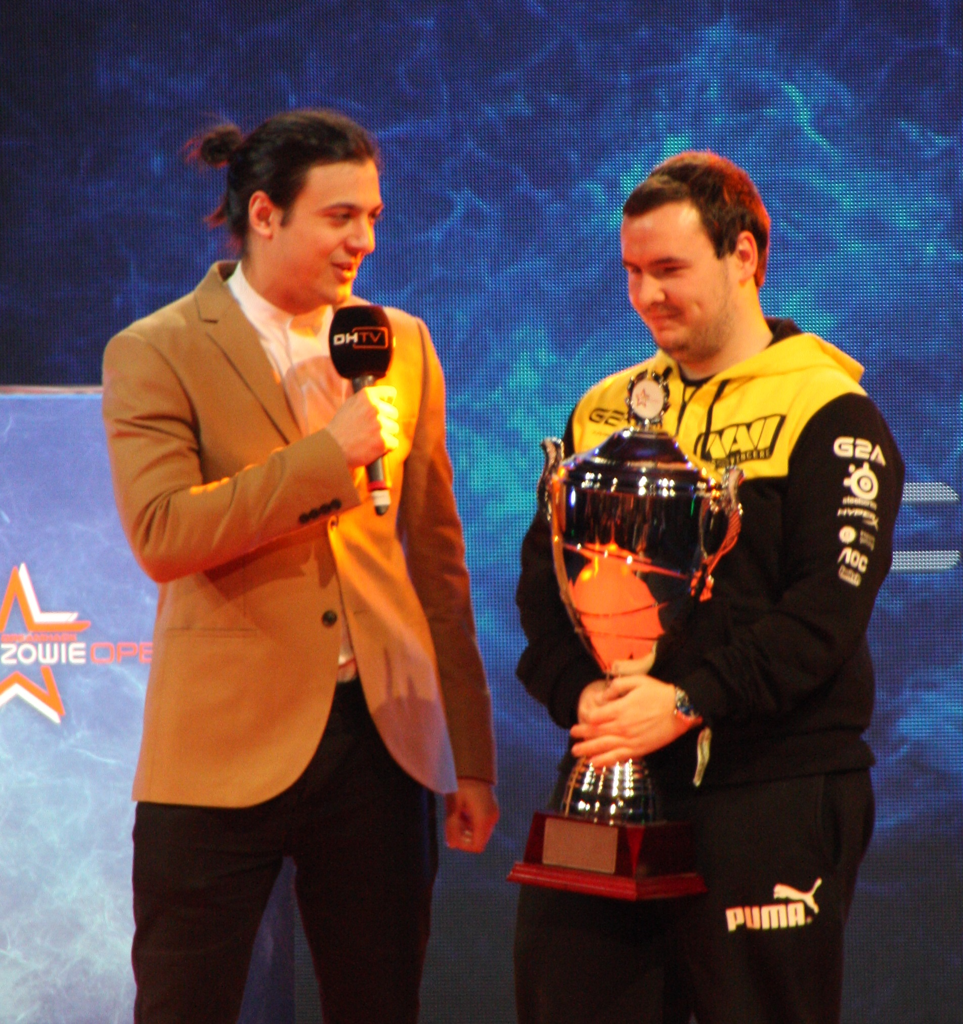 Counter Strike player "Guardian" (Ladislav Kovacs) interviewed by "Mantrousse" (Pala Gilroy Sen) at DreamHack Leipzig 2016